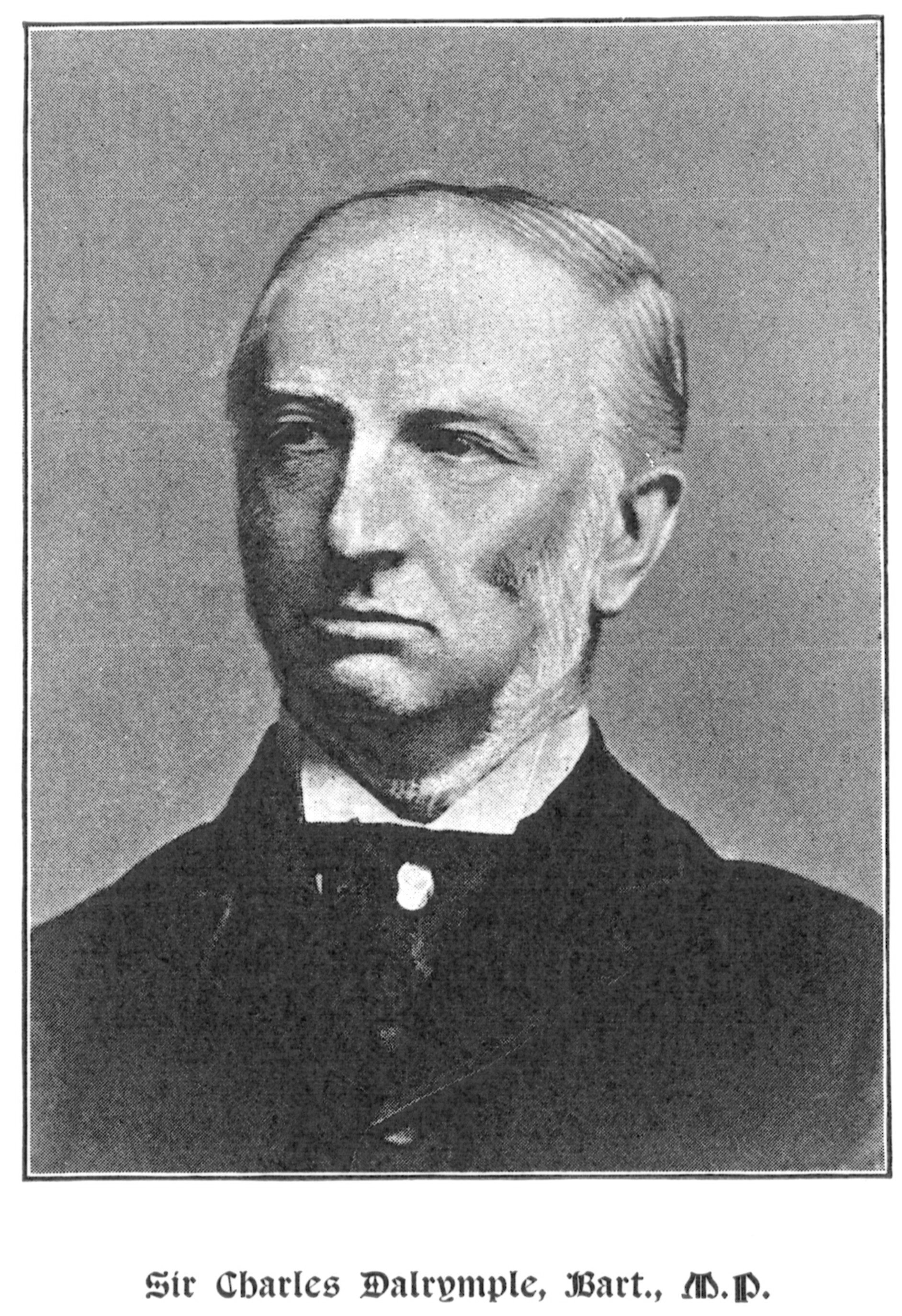 Portrait of Sir Charles Dalrymple published August 1893 in Suffolk Celebrities